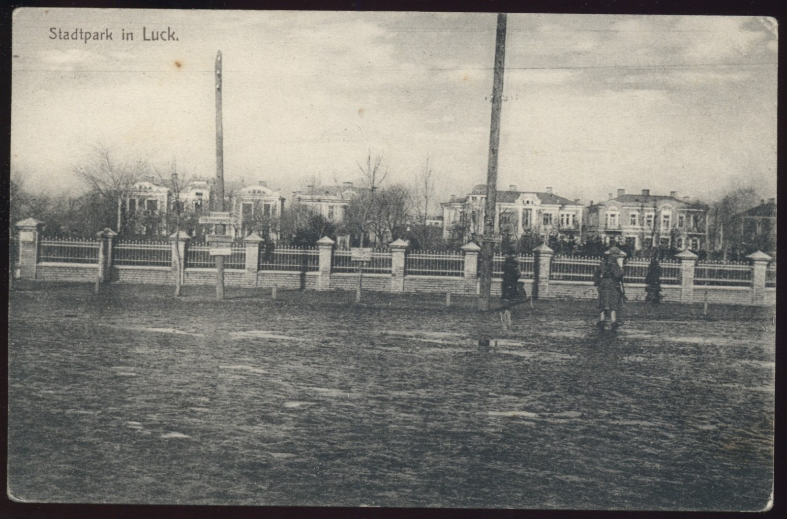 city park in early XX cen.